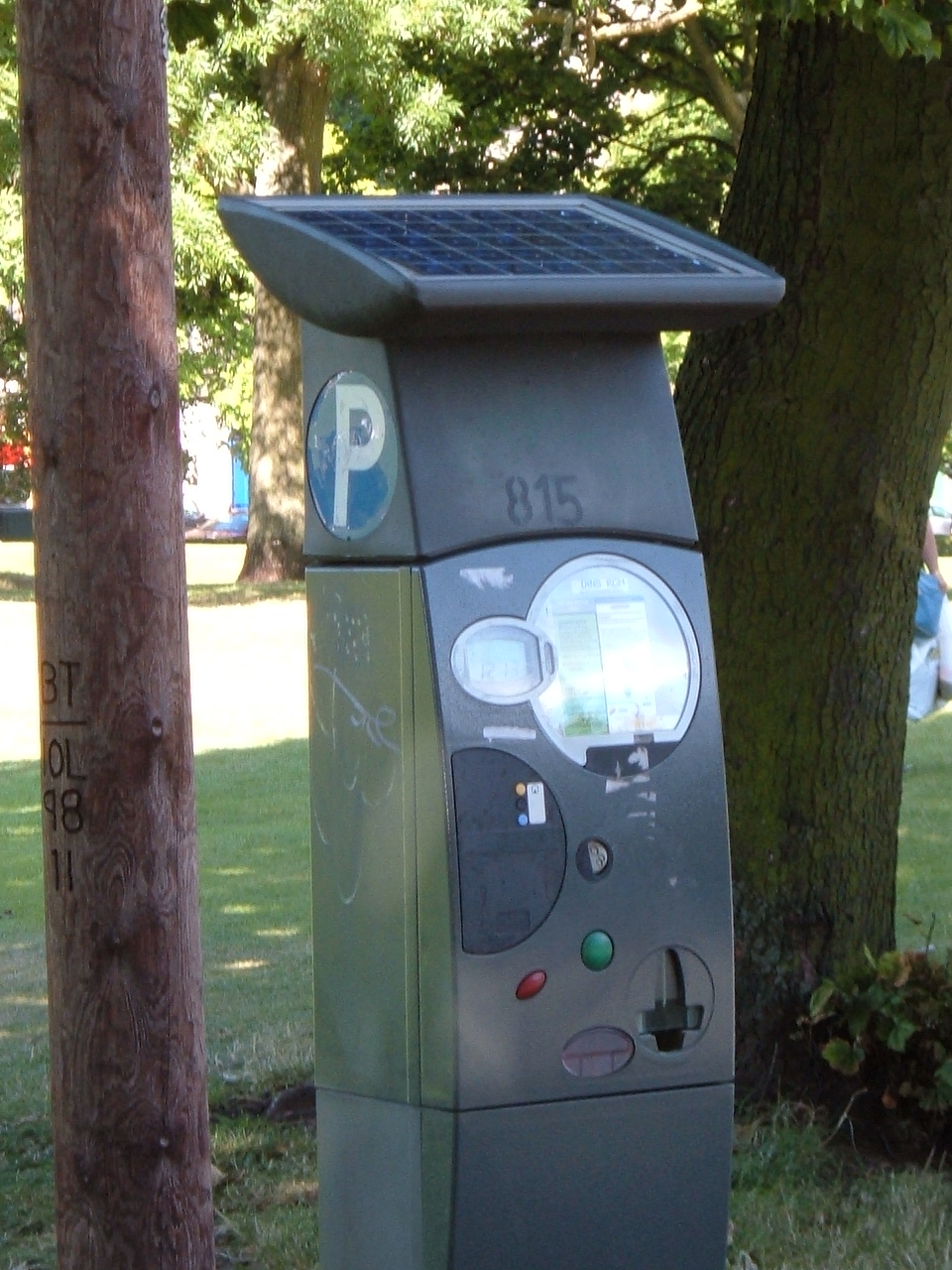 Picture of a ticket parking meter in Edinburgh. Taken by User:Pilatus